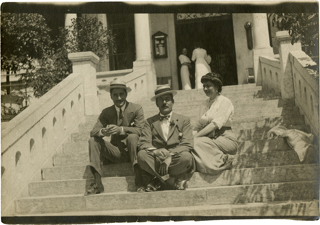 Portrait of Antonio Puccini, Giacomo Puccini, Elvira Puccini. Photo by unknown.